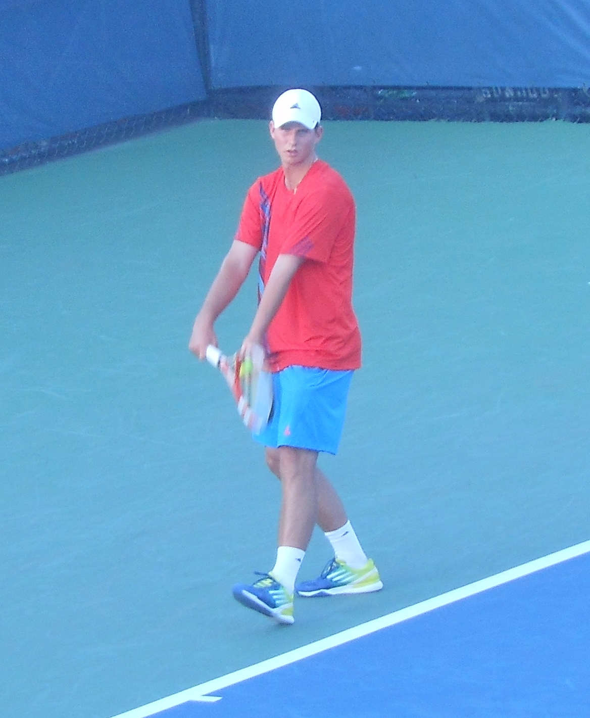 Dennis Novikov at the US Open